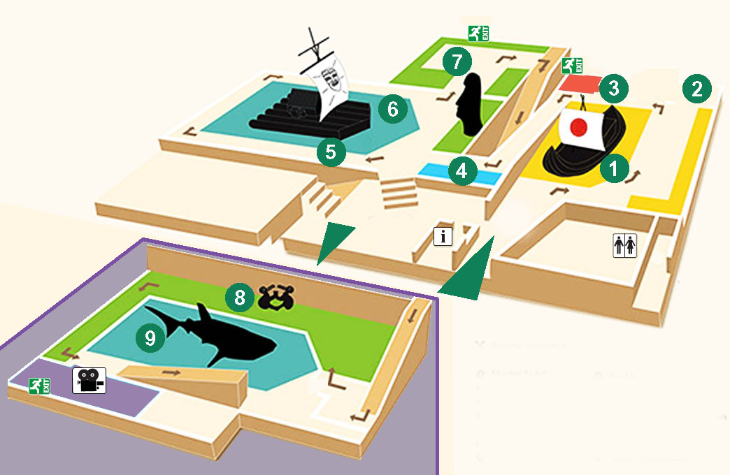 Layout plan of the Kon-Tiki Museum's exhibitions. File was created using File:Kon-Tiki map.jpg. Numbers indicate:1 Ra2 Tigris3 Auditorium and temporary exhibitions4 Fatu-Hiva5 Polynesia6 Kon-Tiki raft7 Easter Island Basement:8 Cave Exploration9 Under the raft.